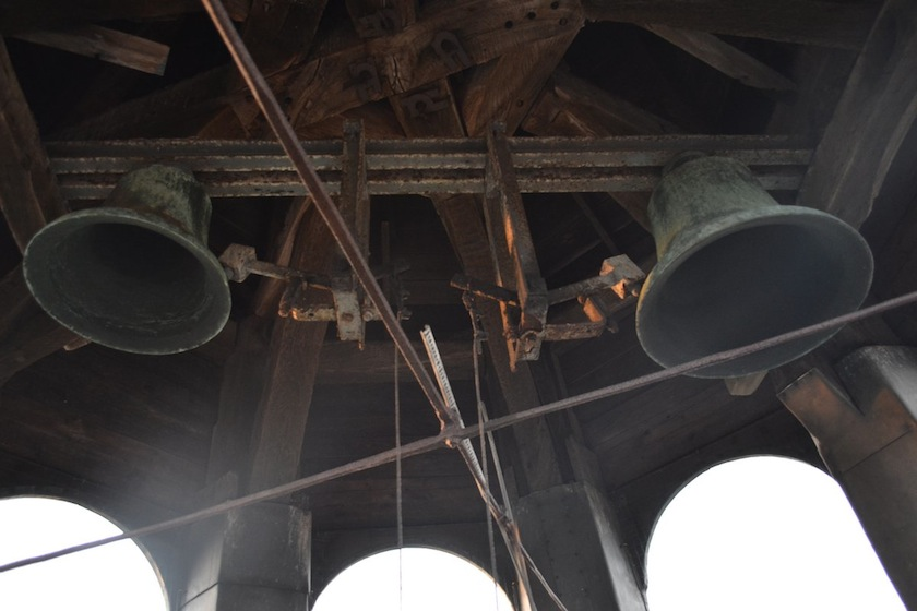 clock bells St. Mauritz Münster